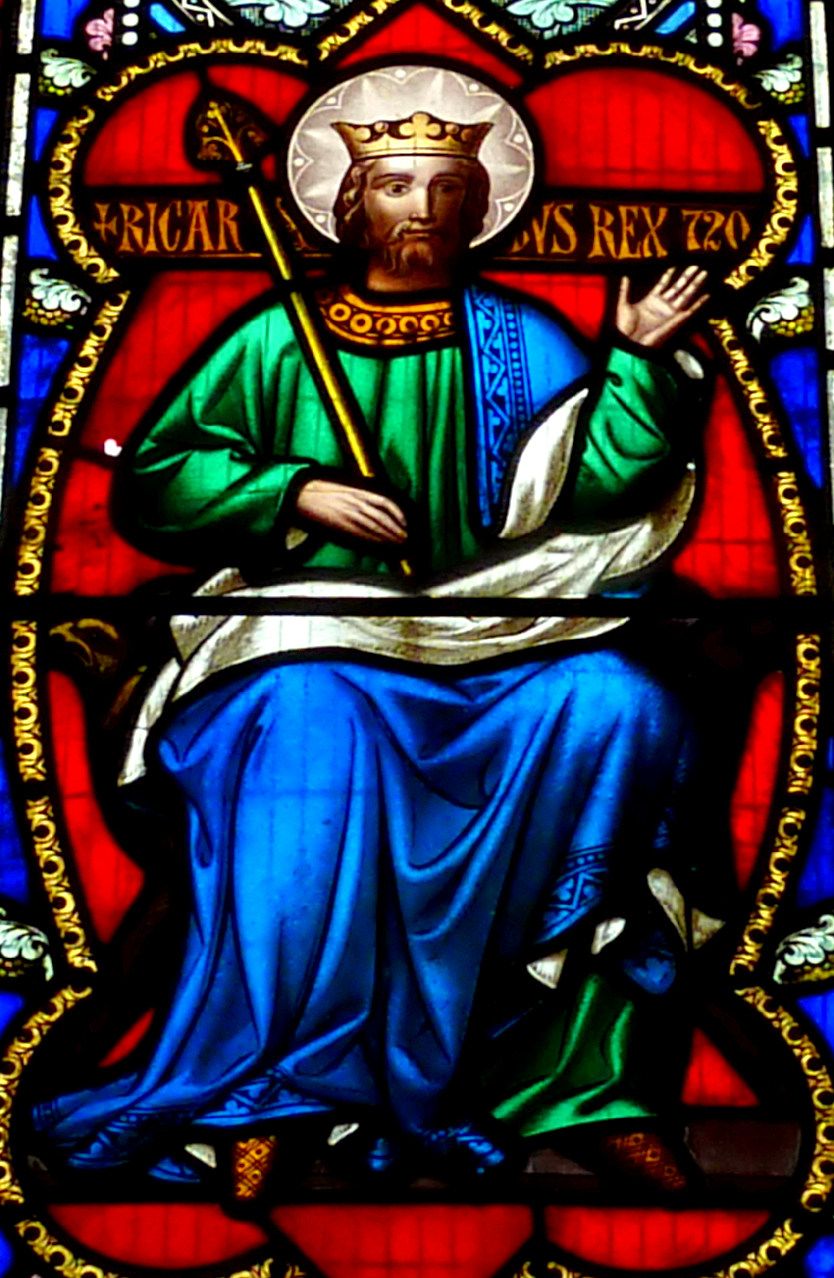 St Ricarius Church, Aberford, West Yorkshire, England. Originally a medieval church, of which only the tower remains. The nave was mostly rebuilt in 1862 to a design by Anthony Salvin, but it includes an 1830 east wall. The stone carving on the building is by Mawer and Ingle, who also carved the pulpit. Showing St Ricarius window of 1862, by Wailes, in a medieval window frame from the previous building. This window shows "St Richard, a king of the West Saxons, AD 720, in whose name it is supposed this church is dediicated." (source = Leeds Intelligencer, Saturday 03 May 1862 p8: "Aberford Church reopening and consecration")